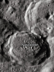 Nasireddin lunar crater as seen from Earth with satellite craters labeled